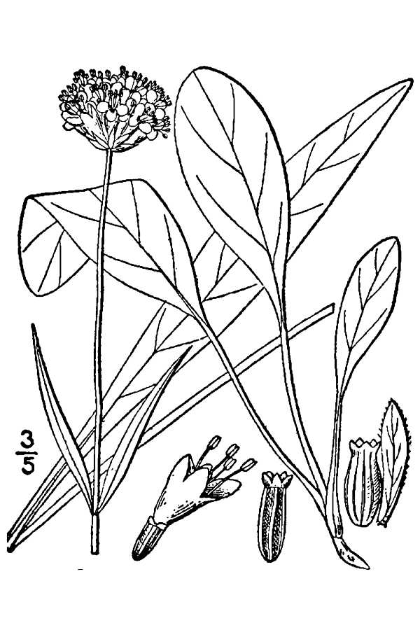 Succisella inflexa (Kluk) G. Beck southern succisella